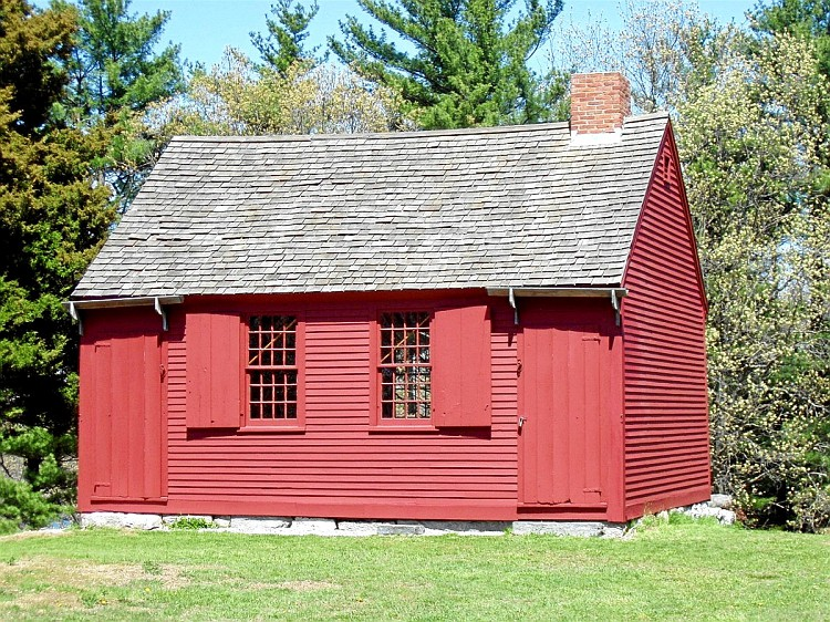 The Nathan Hale School, part of the East Haddam Historic District, East Haddam, Connecticut.